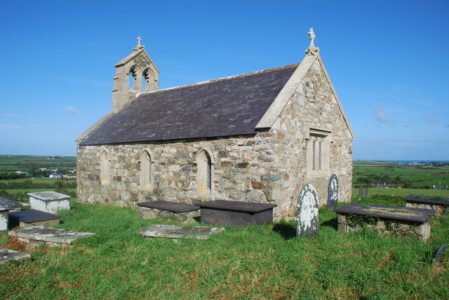 St Ceidio's Chapel, Ceidio, Buan, Gwynedd, seen from the southeast